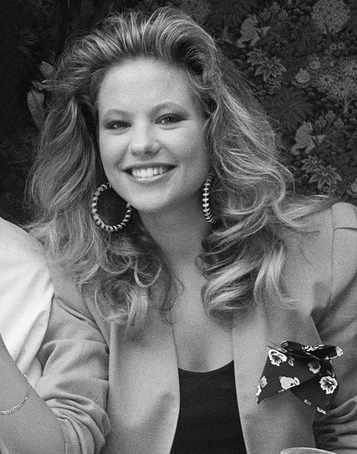 Angela Visser Miss Universe 1989 from The Netherlands